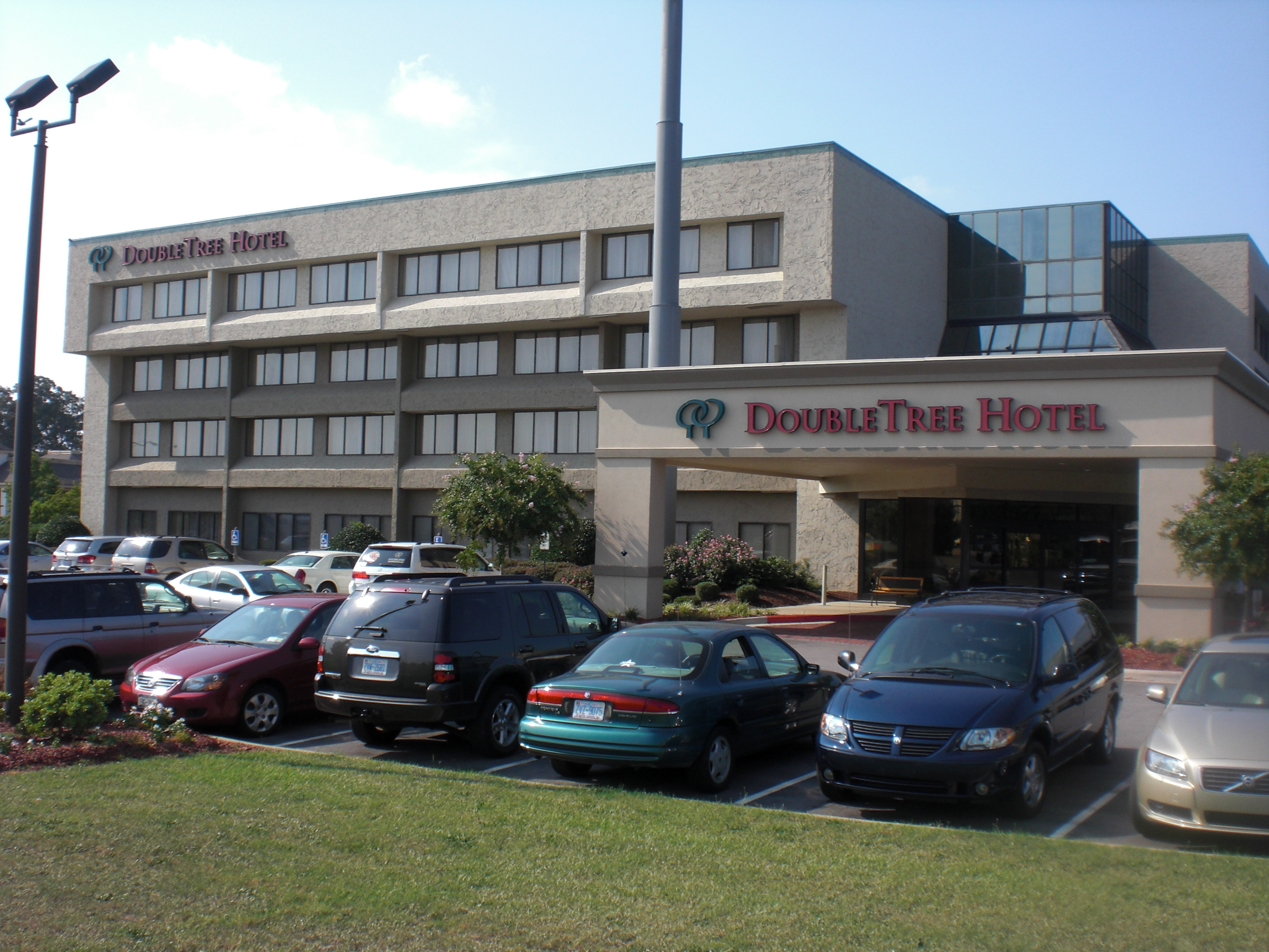 This is the Doubletree Fayetteville, NC